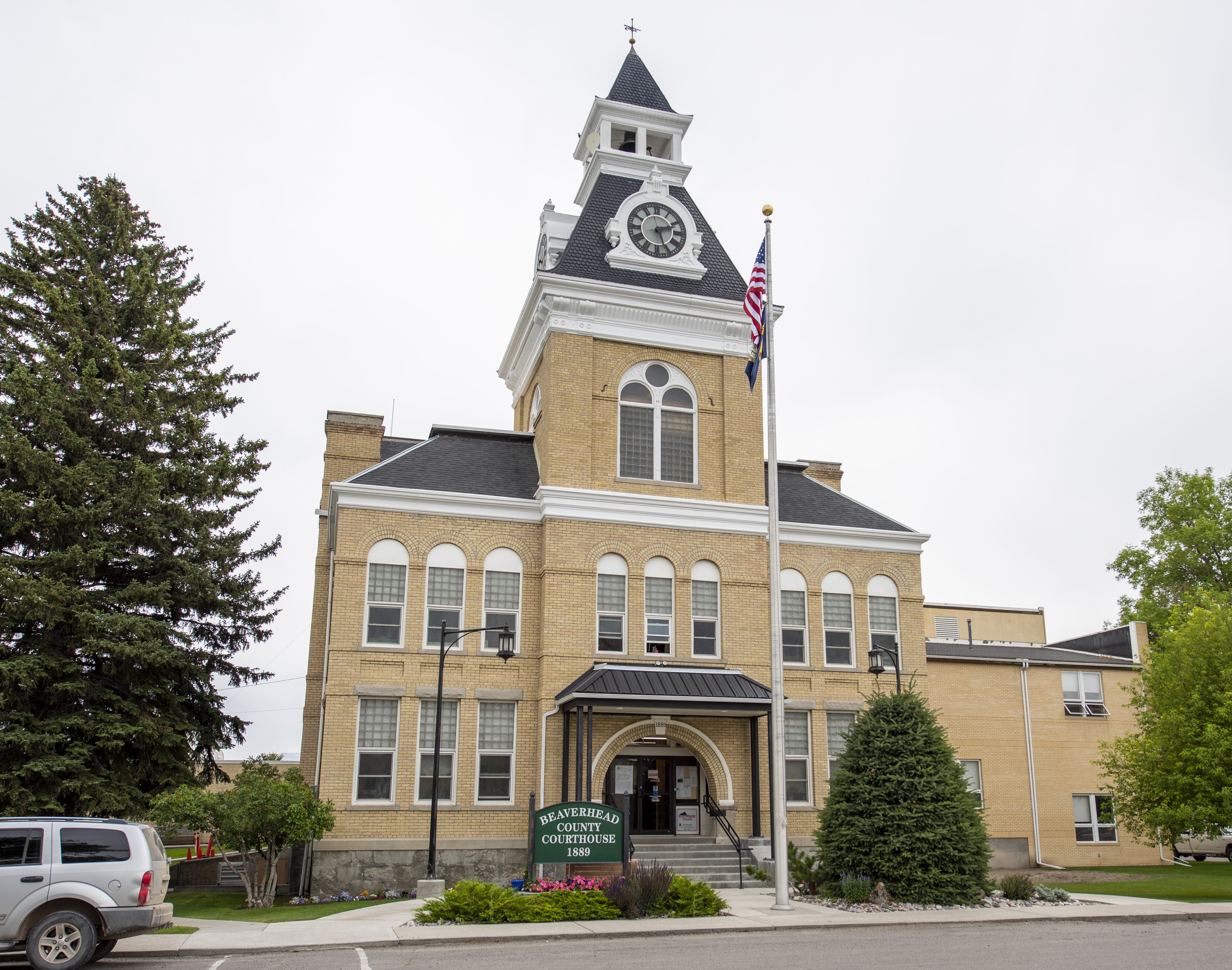 Photograph of the Beaverhead County Courthouse in Dillon, Montana. Image taken in July 2020.